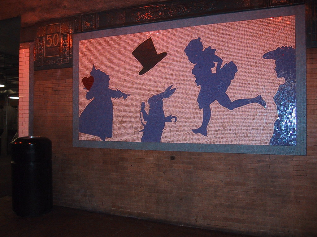 This mural is found inside the 50th Street station of New York's subway line 1.